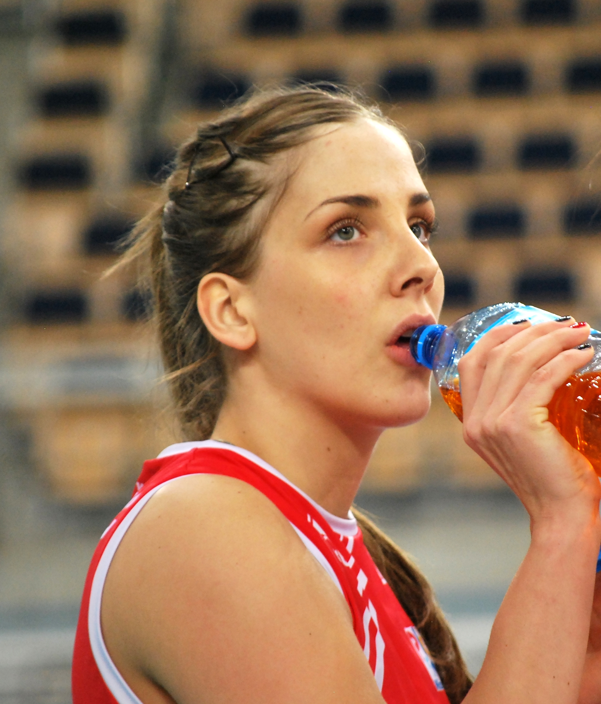 Tijana Malešević, volleyball player from Serbia